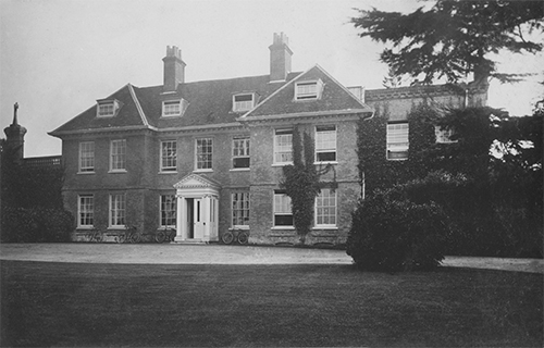 Itchel Manor, Crondall, Hampshire c. 1907 from a postcard by Chapman and Sons. 5974. Building demolished in 1954.